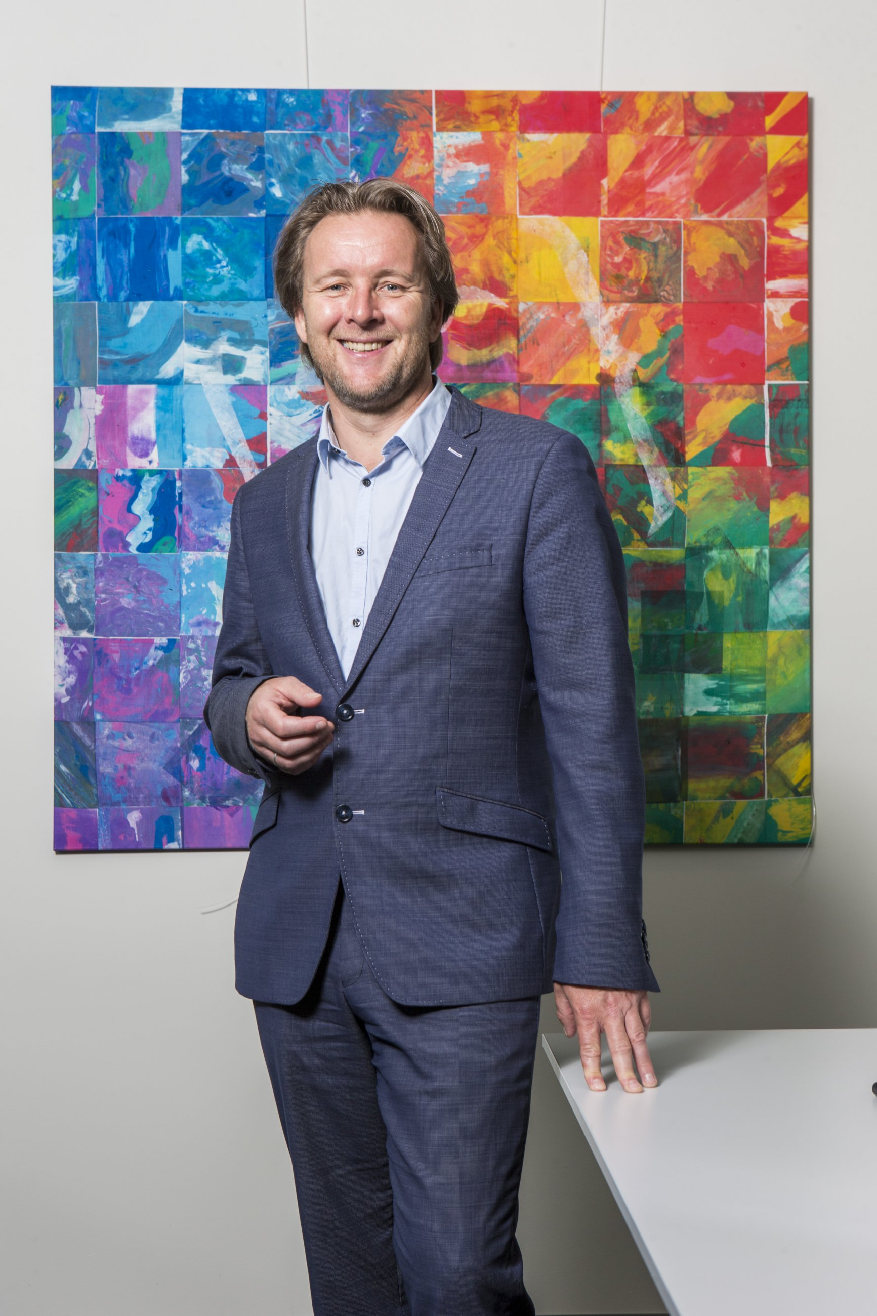 Dutch linguist Piek Vossen (2013)